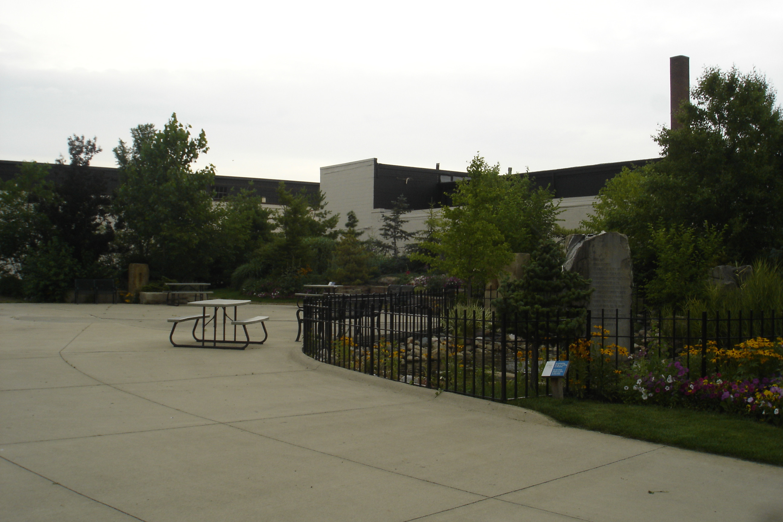 Photo of Focus: HOPE park